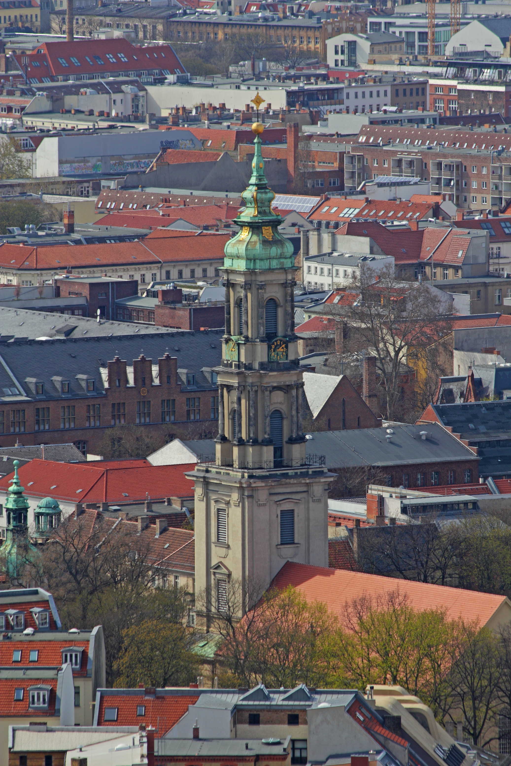 View of Berlin from the viewing point of Park Inn, Alexanderplatz.